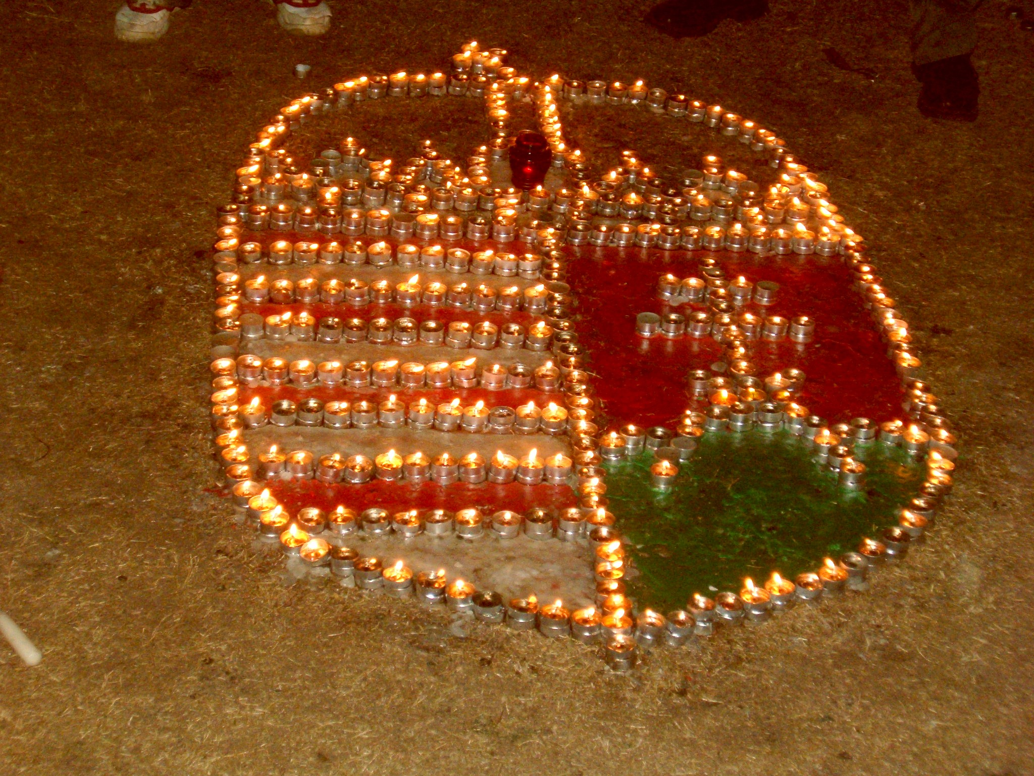 2006 anti-government protest, Kossuth square, Budapest, Hungary The official Hungarian coat of arms made out of coloured wax, candles and rushlights. Kossuth square, Budapest.